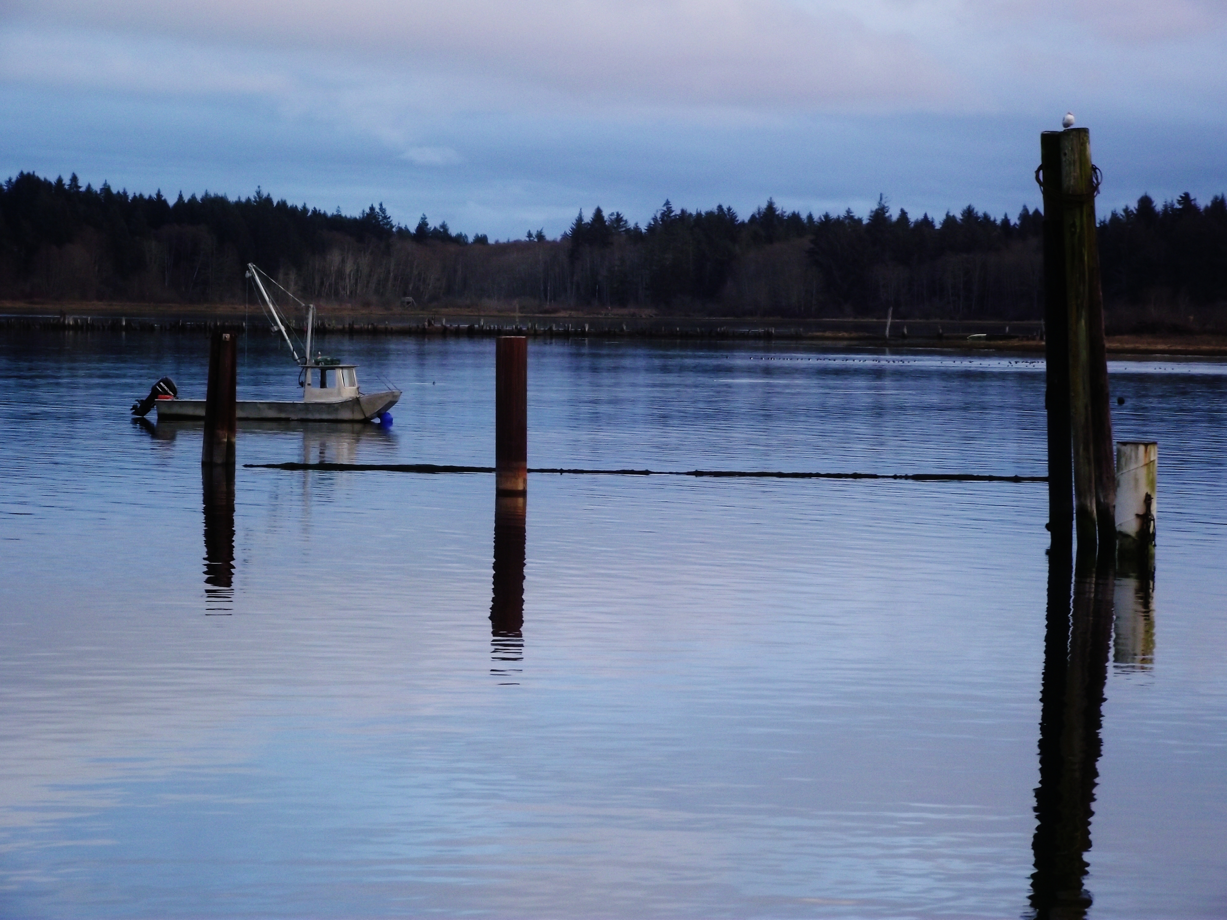 View of Fanny Bay BC